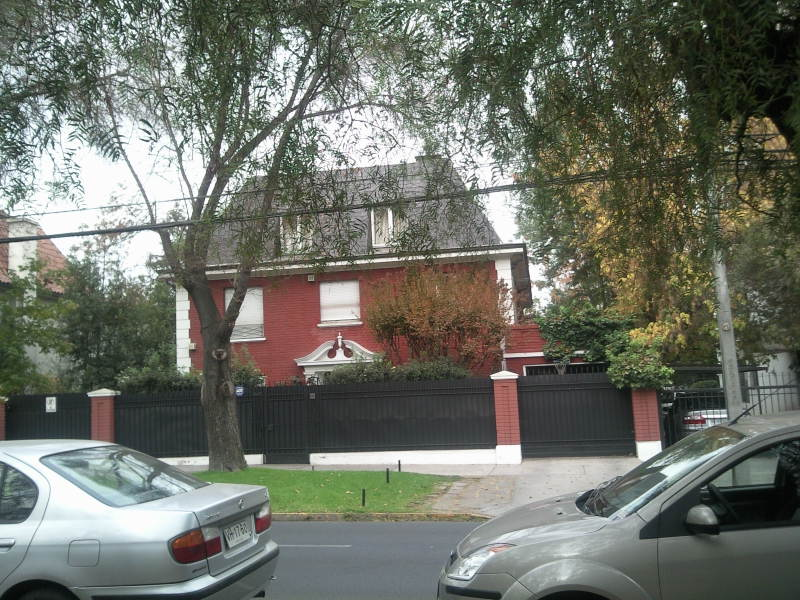 Luxury Home, Santiago, Chile.